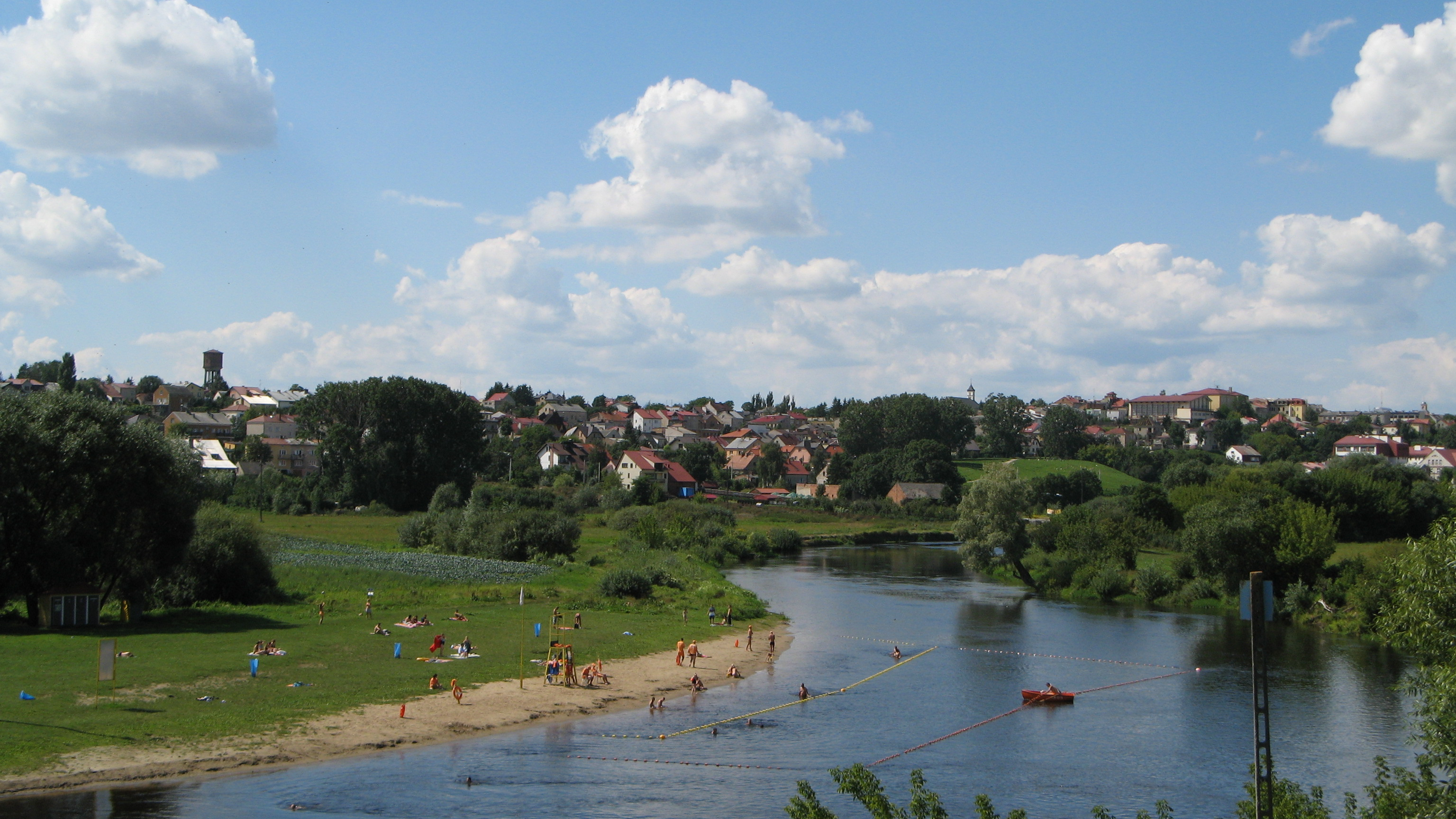 Panorama of Łomża City